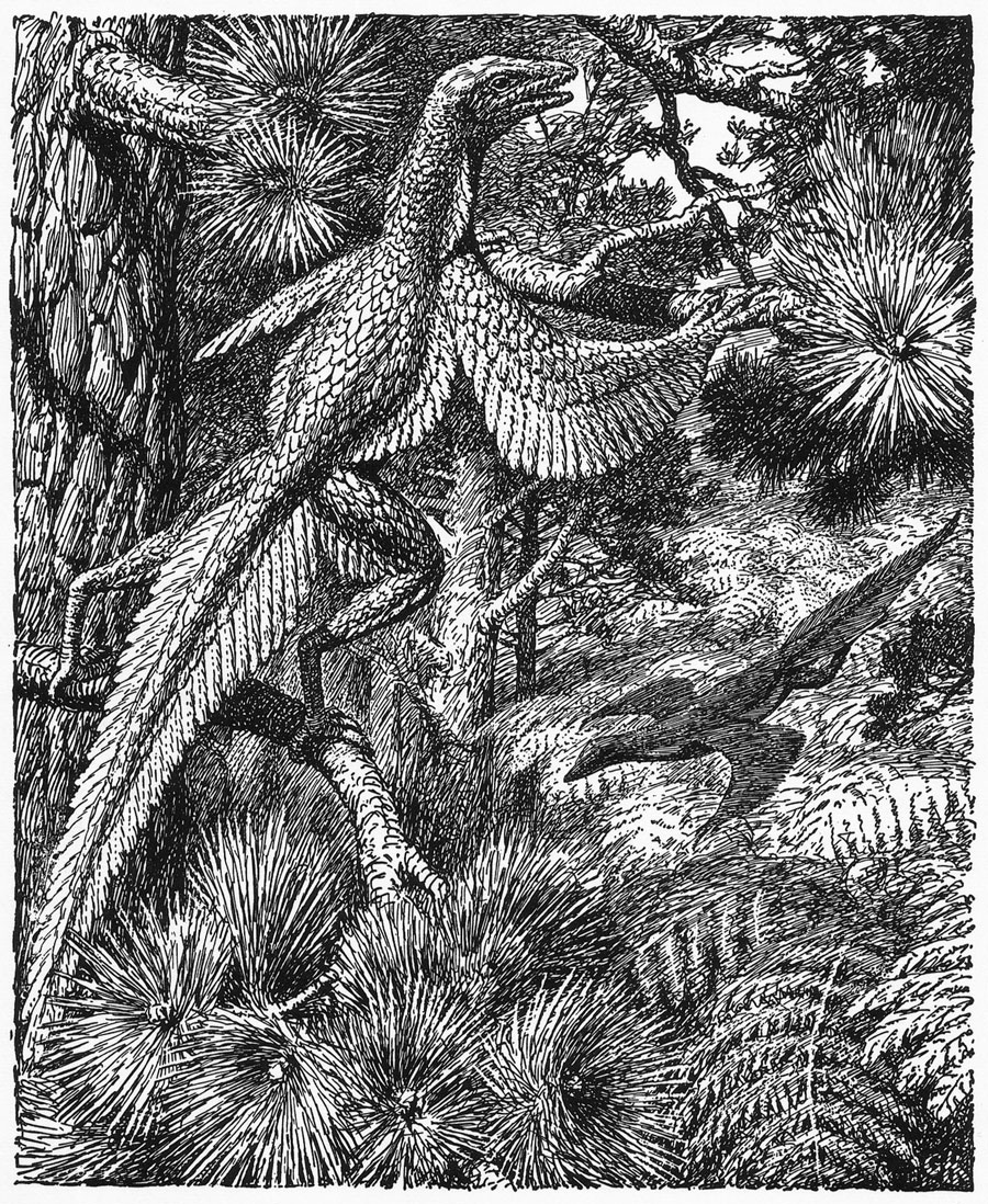 Gerhard Heilmann's speculative life restoration of his hypothesized "Proavian".